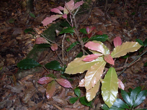 Sloanea australis (juvenile) growing by the Hacking River, Australia